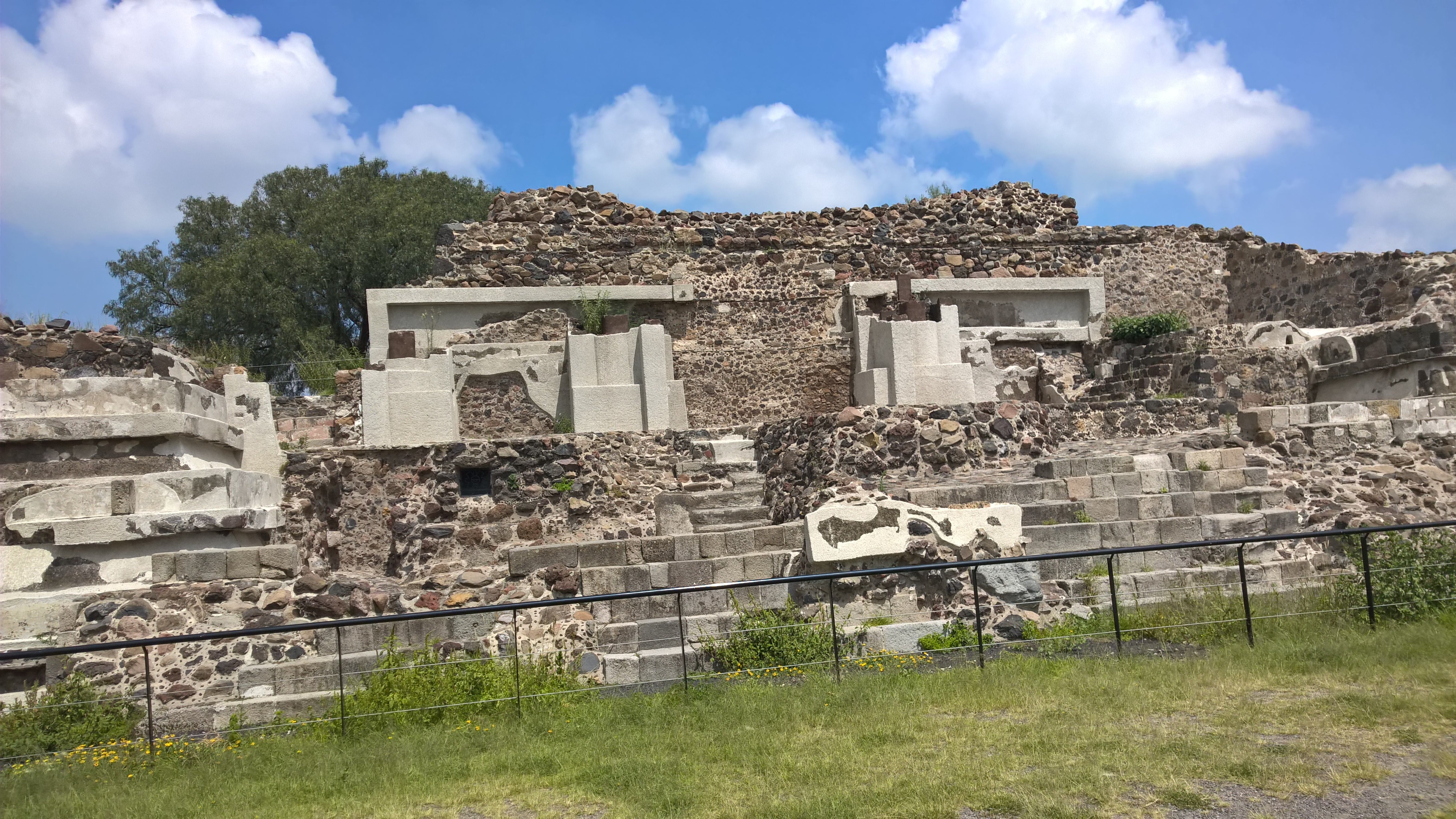 Teotihuacan